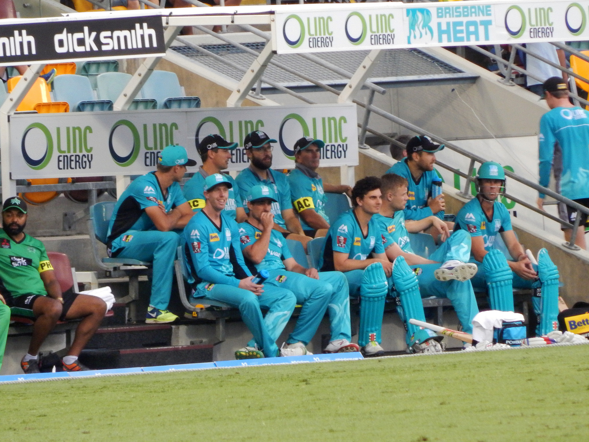 Brisbane Heat vs Melbourne Stars 28/12/2014 T20 at the Gabba, Brisbane.